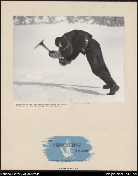 Australasian Antarctic Expedition lead by Douglas Mawson (1907-1914). The figure is actually leaning on a constant 100 miles per hour wind.